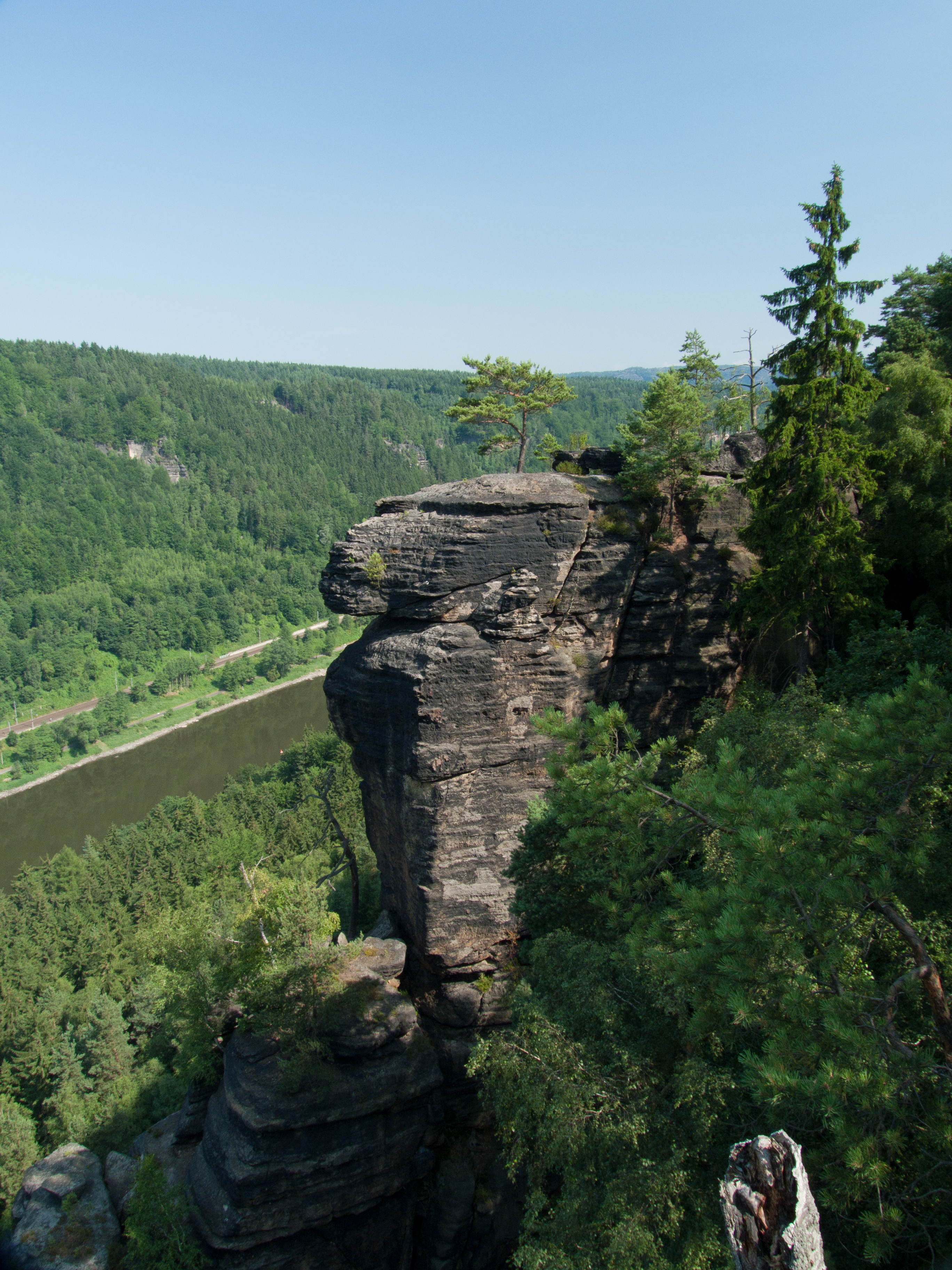 View of the river Elbe from the Belvedér observation point near the village of Labská Stráň, Děčín District, Czech Republic